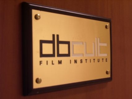 Nameplate DBCult Film Institute.